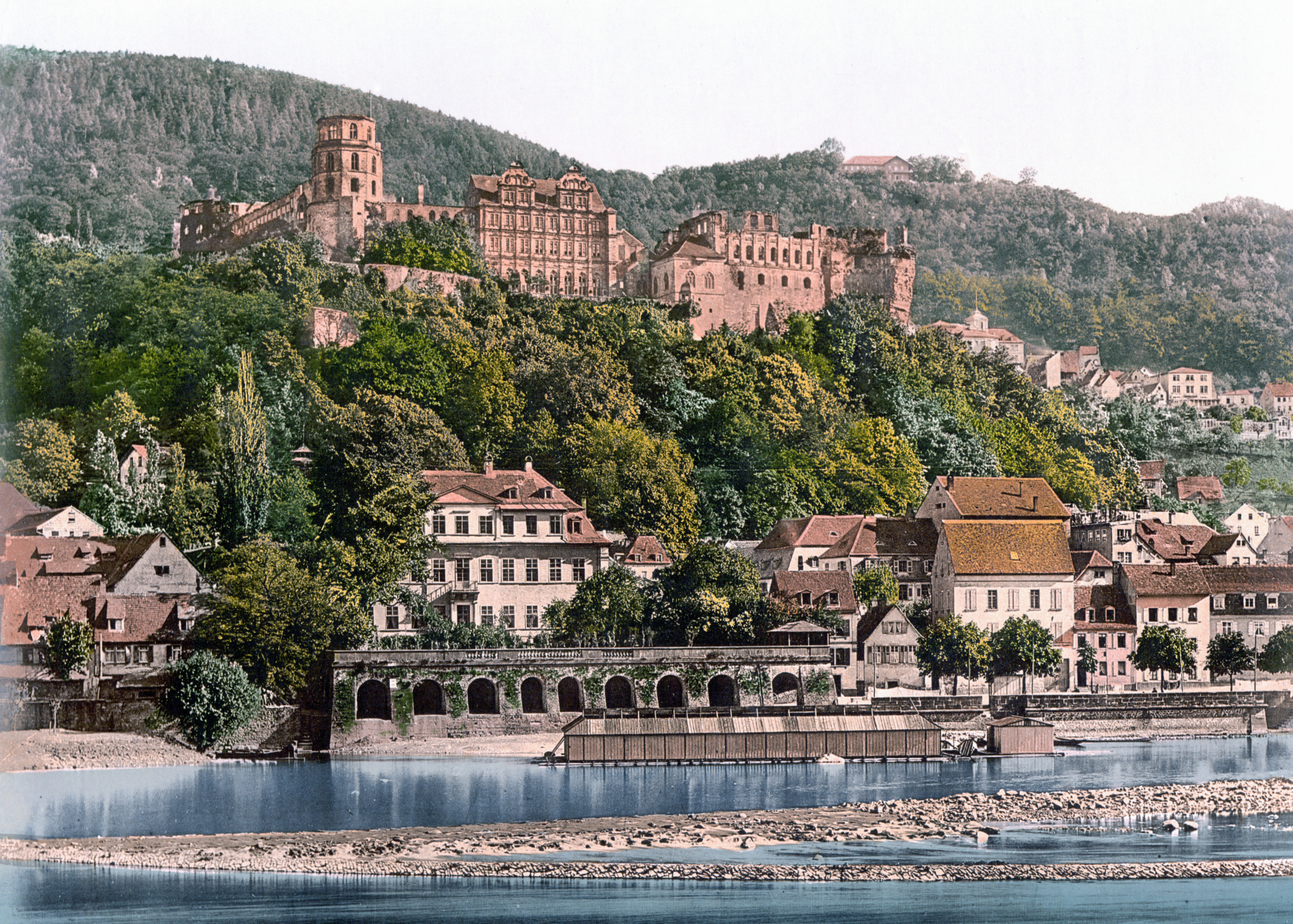 Castle of Heidelberg, seen from the Hirschgasse